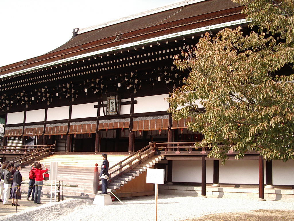 Main building, Shishinden of Kyoto imperial palace in Kyoto, Japan 京都御所紫宸殿